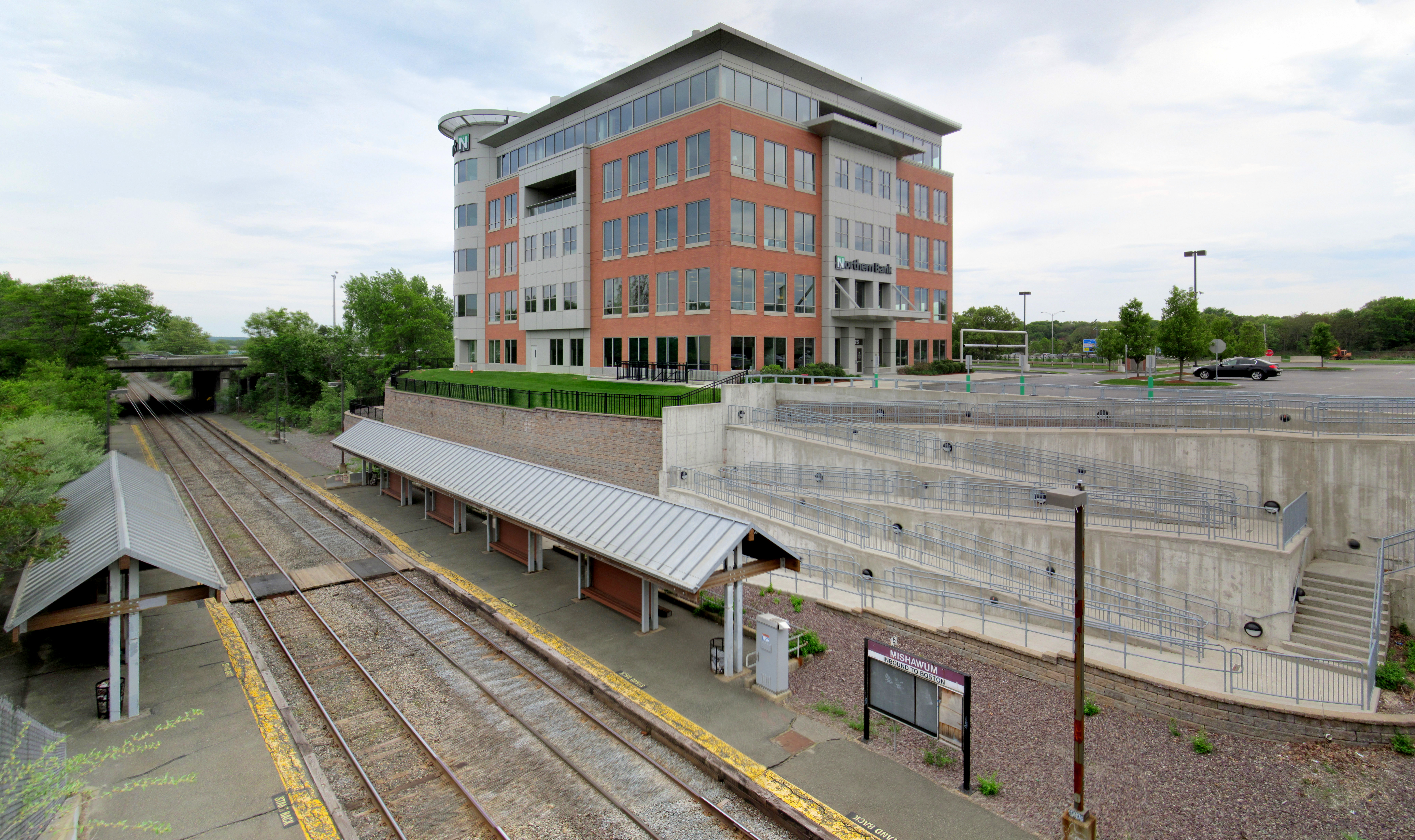 Panorama of Mishawum station and the Northern Bank and Trust headquarters building in May 2014